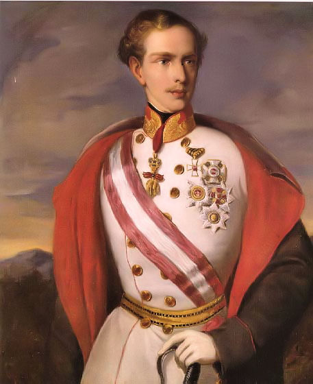 Portrait of Franz Joseph I of Austria (1830-1916)